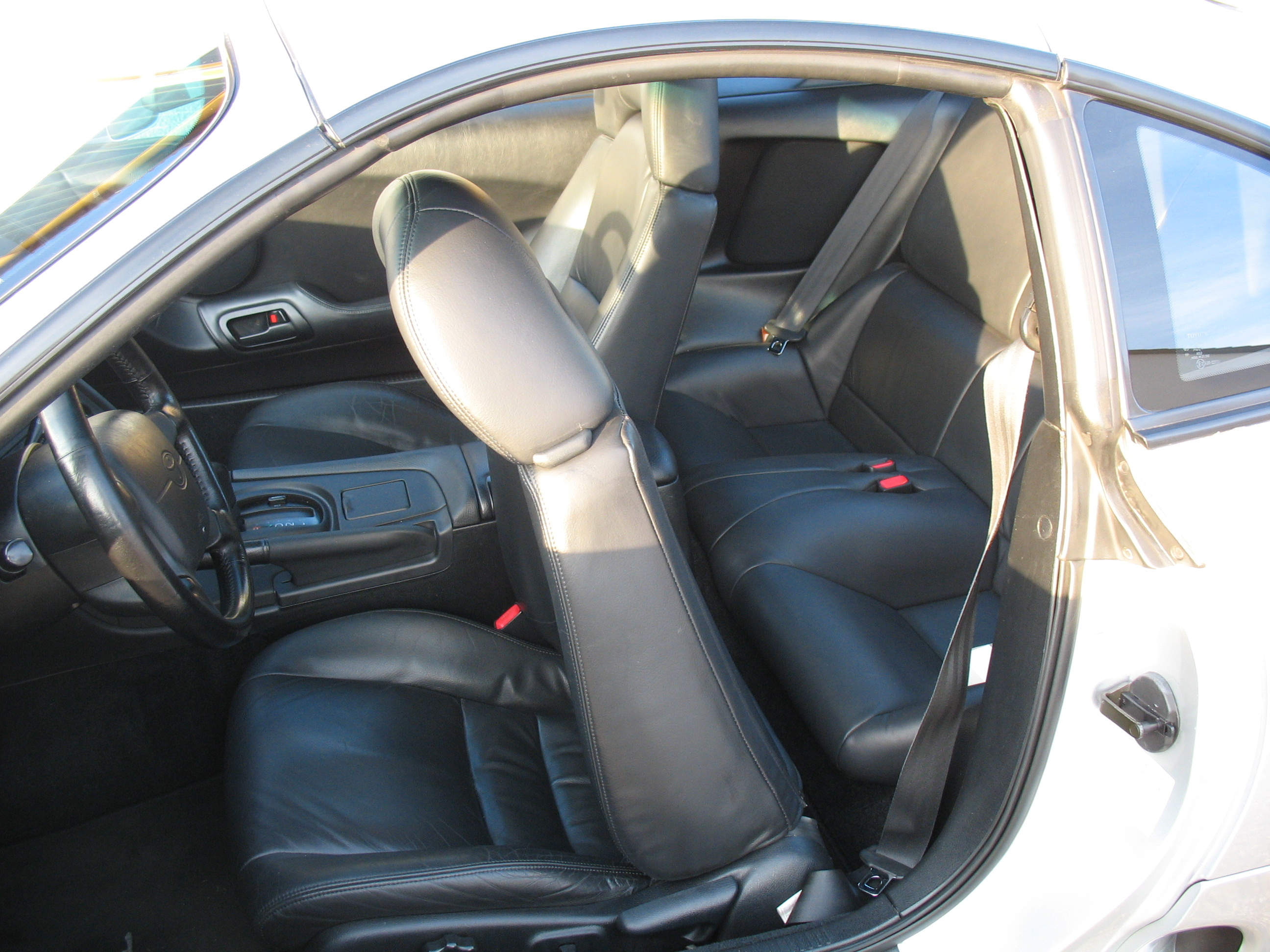 Toyota Supra MKIV interior leather